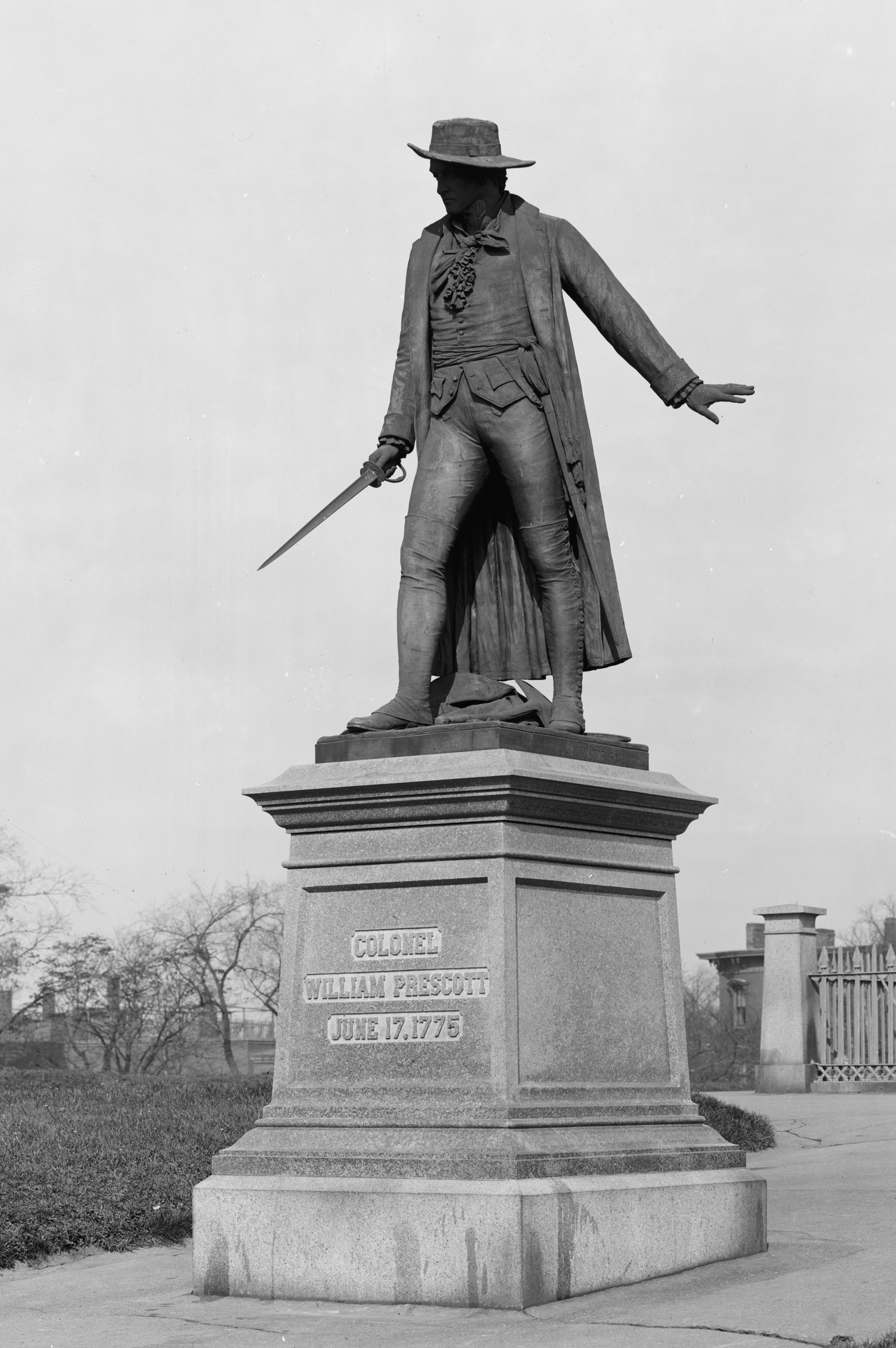 Statue of Col. Prescott, Charlestown, Mass. Sculpted by William Wetmore Story, 1881.